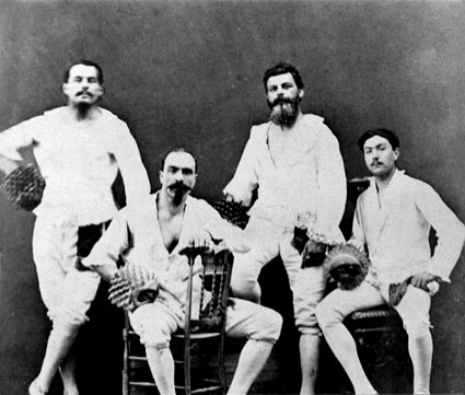 Ancient ball game player